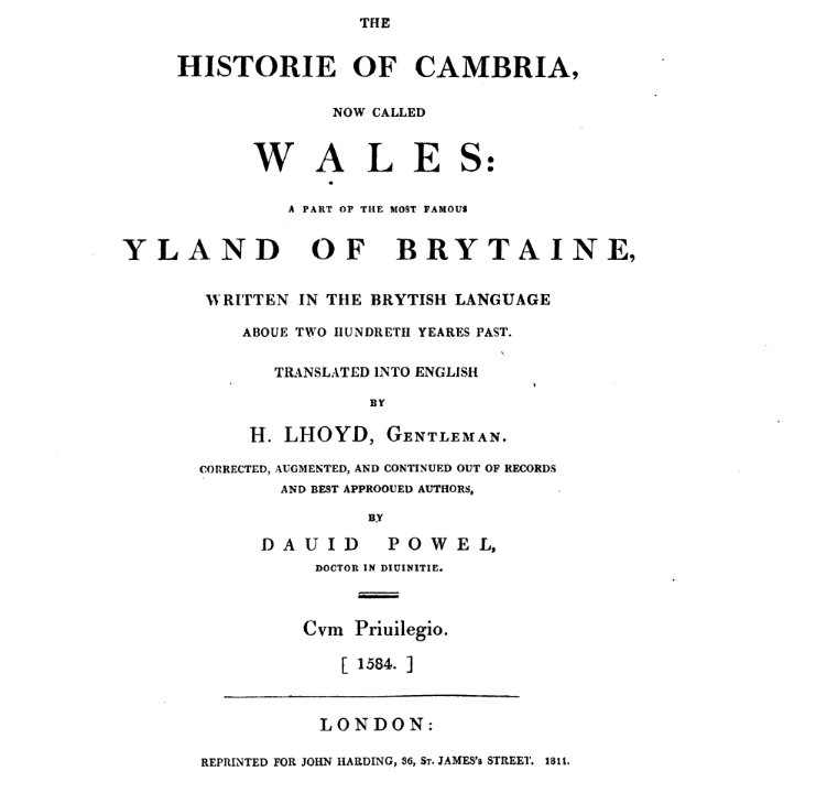 "History of Cambria" 1811 cover page of book written by David Powel